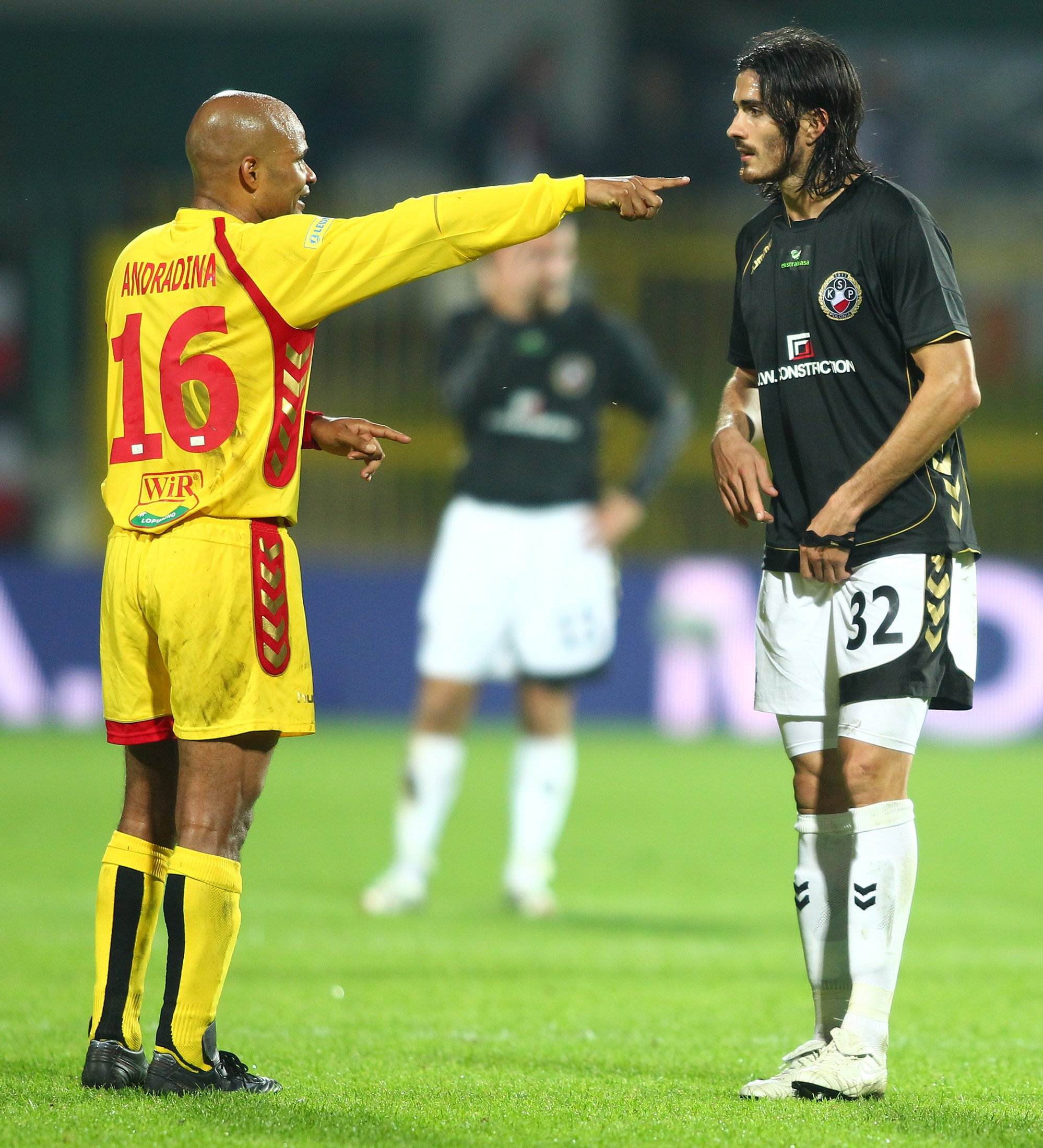 Andradina (left) of Korona Kielce gives direction to Bruno Coutinho (right) of Polonia Warszawa during an Ekstraklasa match